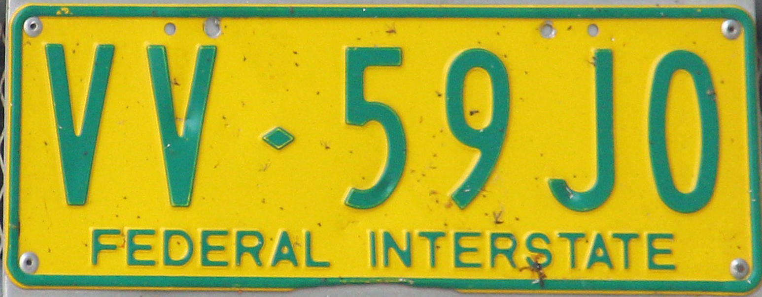 Federal Interstate numberplate VV59JO as registered on a Kenworth truck